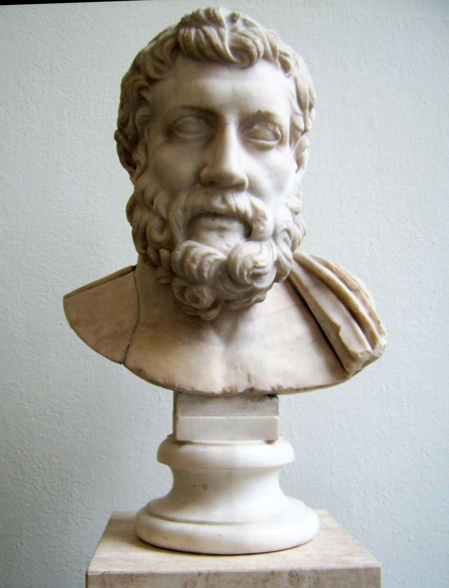 Berlin, Pergamonmuseum. An Ancient Roman copy of a Greek portrait of Epicurean philosopher Metrodorus.